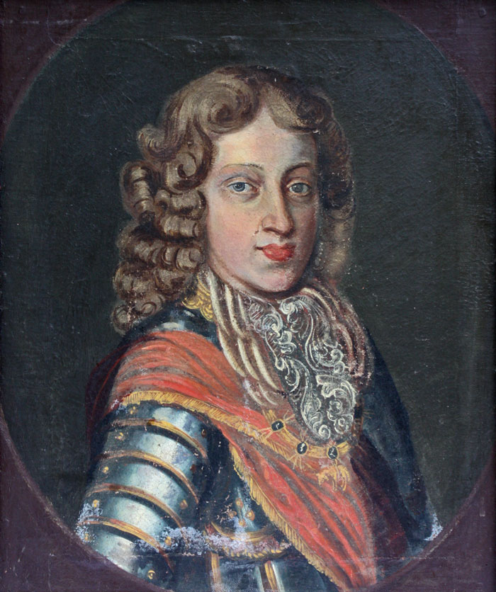 Ferdinand Charles, Archduke of Austria